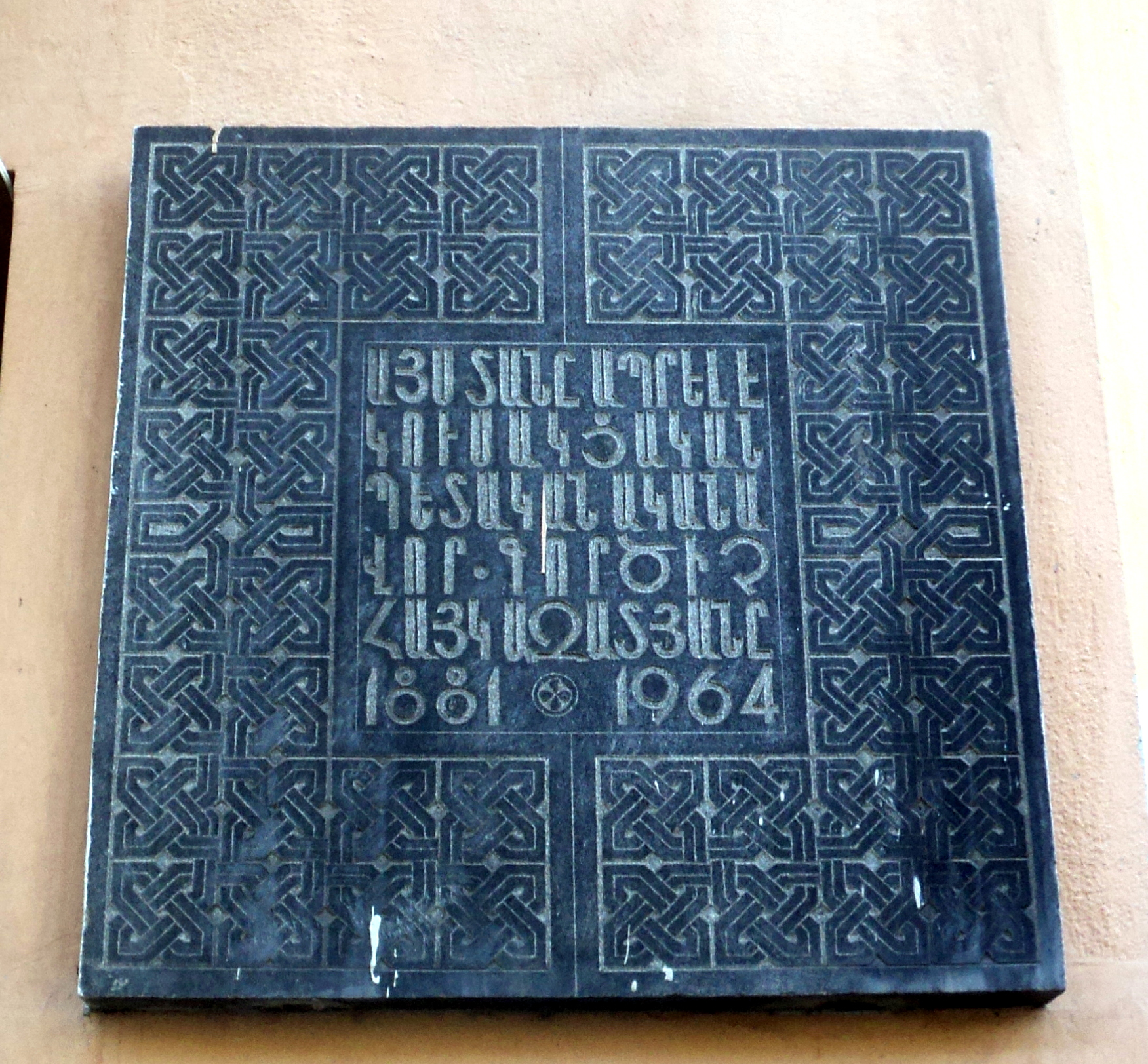 Hayk Azatyan's plaque in Yerevan